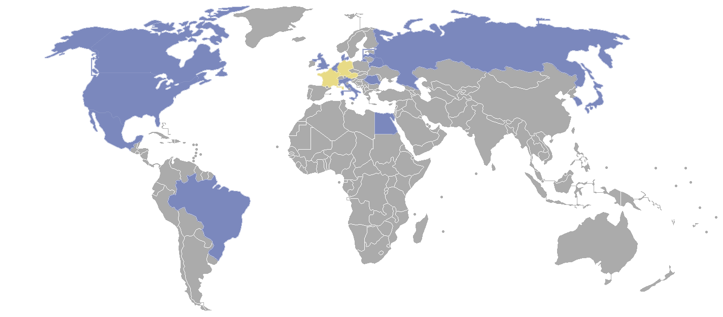 Countries participating in the competition for the Golden Palm 2012 (incl. coproduction countries)